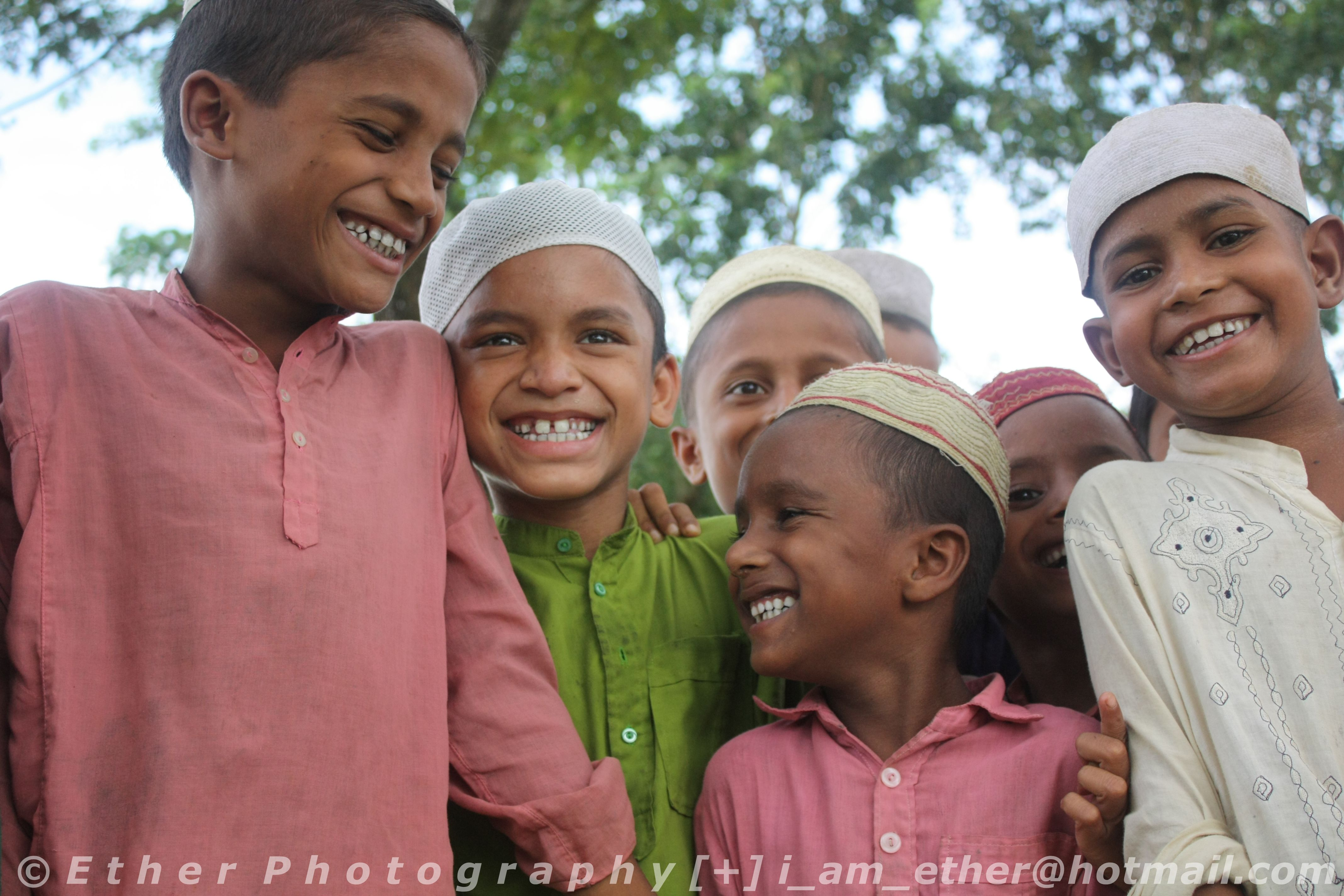 In this tour, I decided that when shooting a village I won't shoot the cries of their life. I know and I have seen, that besides their agonizing struggle of life, they still smile at life's continuous attempts to beat them. And God ! when they smile! you will forget even your own sorrows.